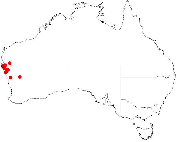 Scaevola chrysopogon occurrence data from Australasian Virtual Herbarium downloaded 12 May 2019 (no doi)